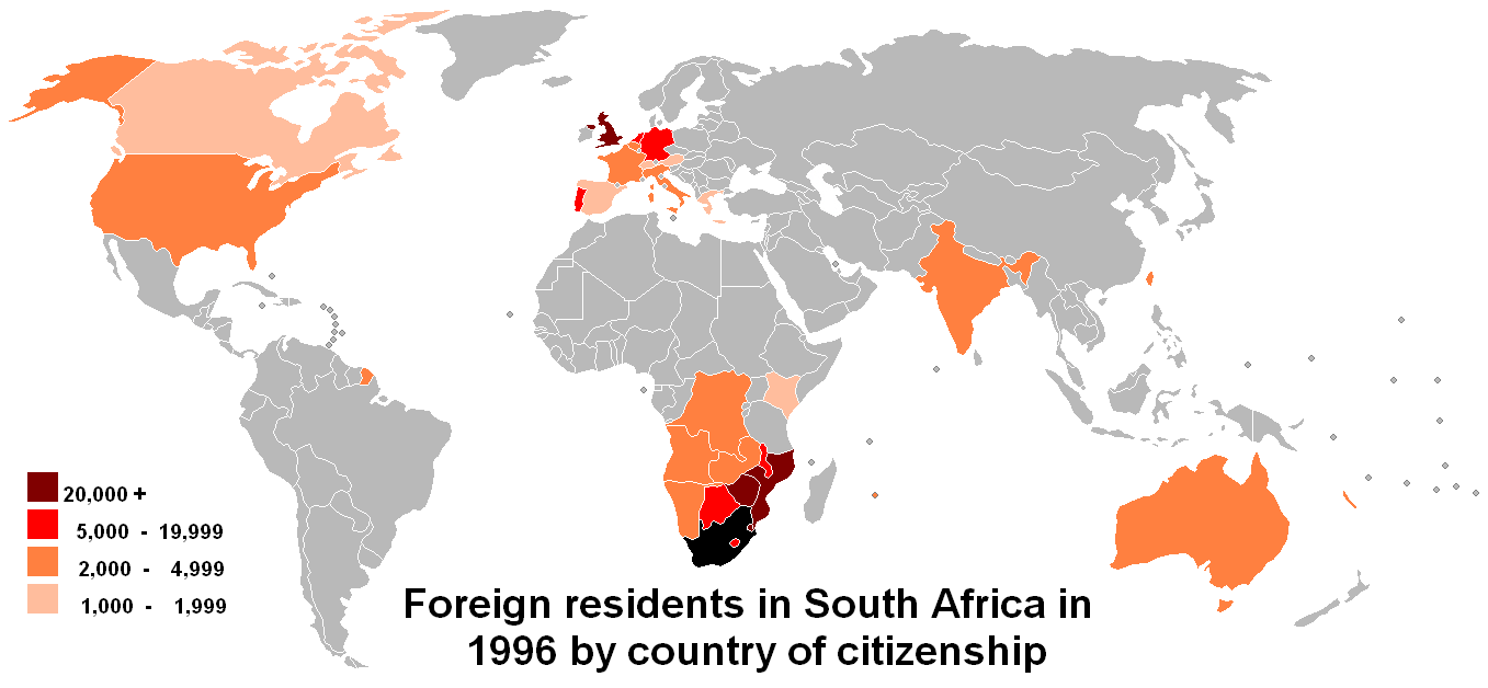 Foreign residents in South Africa in 1996